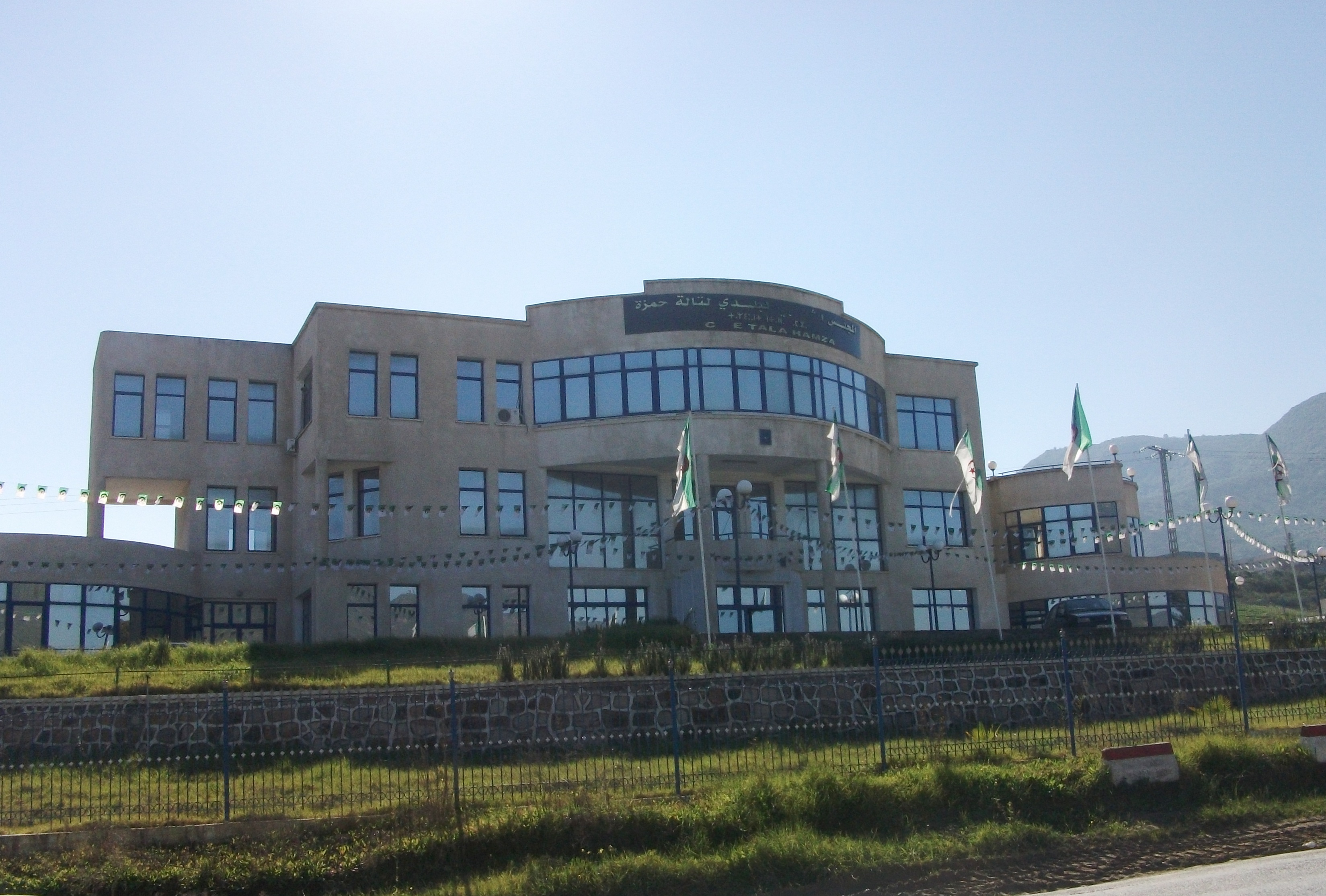 Mairie de Tala Hamza